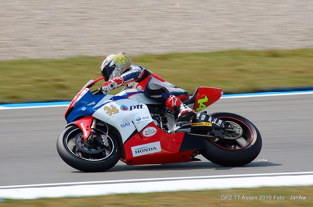 Ratthapark Wilairot on Bimota HB4 at Dutch TT Assen 2010